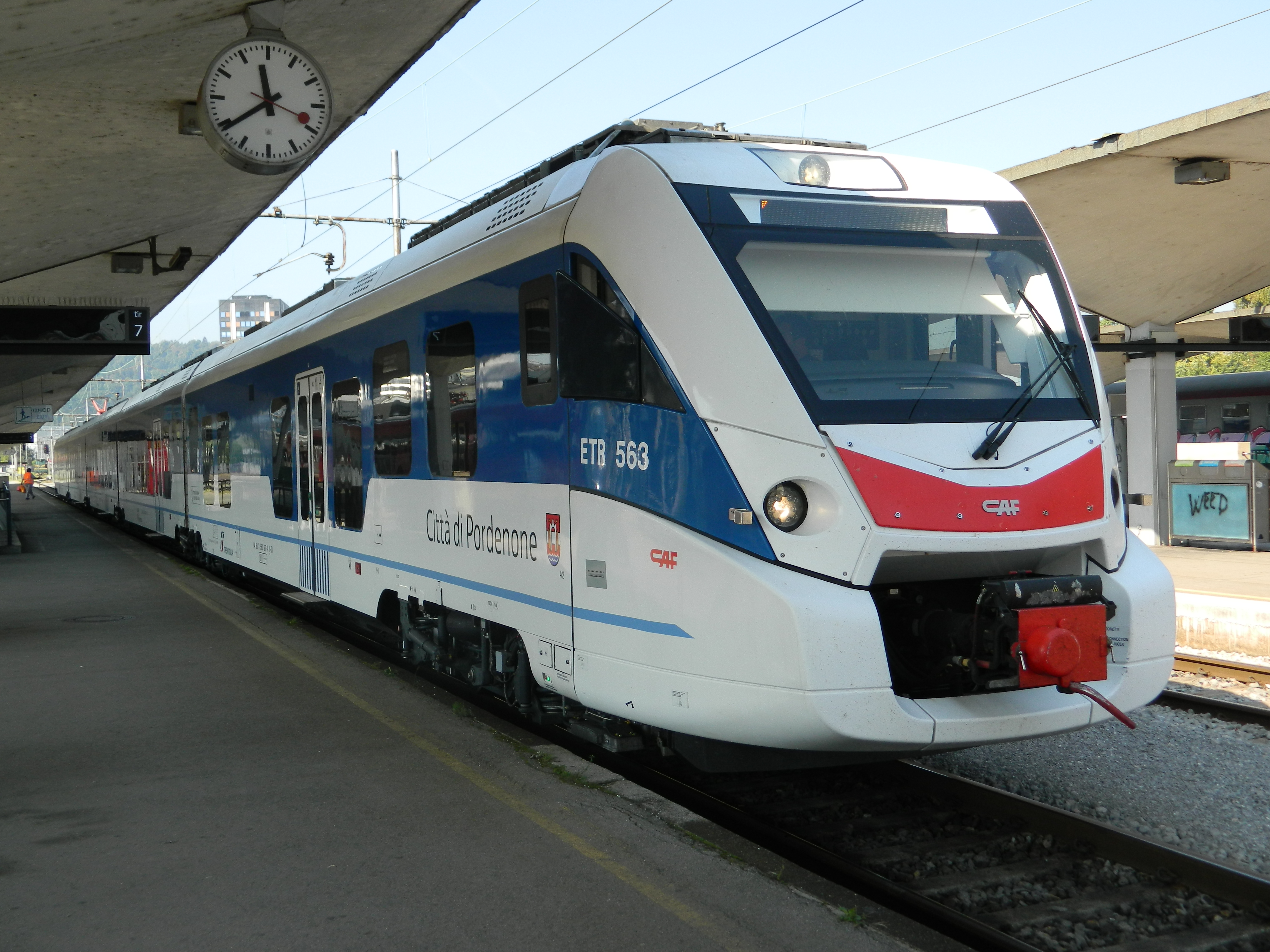 An ETR 563 EMU of Trenitalia at Ljubljana, built by CAF. This train was working the 09:01 train from Trieste Centrale to Ljubljana.